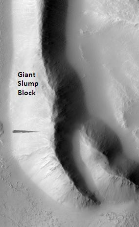 Tharsis Tholus block, as seen by hirise. Location is 13.9 degrees north latitude and 267.8 degrees east longitude. Image was taken by the Mars Reconnaissance Orbiter's HiRISE. The HiRISE camera was built by Ball Aerospace and Technology orporation and is operated by the University of Arizona. Image courtesy NASA/JPL/University of Arizona.